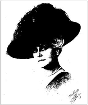 Mabel Bert, 1915, Daddy Long Legs